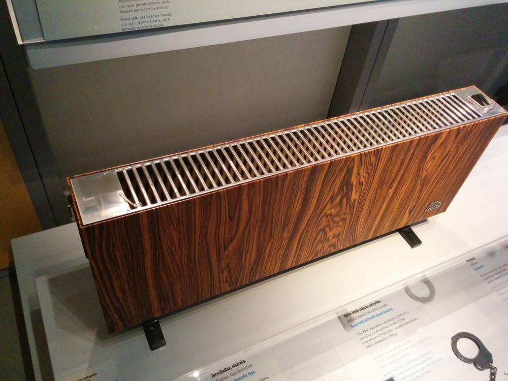 Electric heating making machine by Jata, a Basque company.